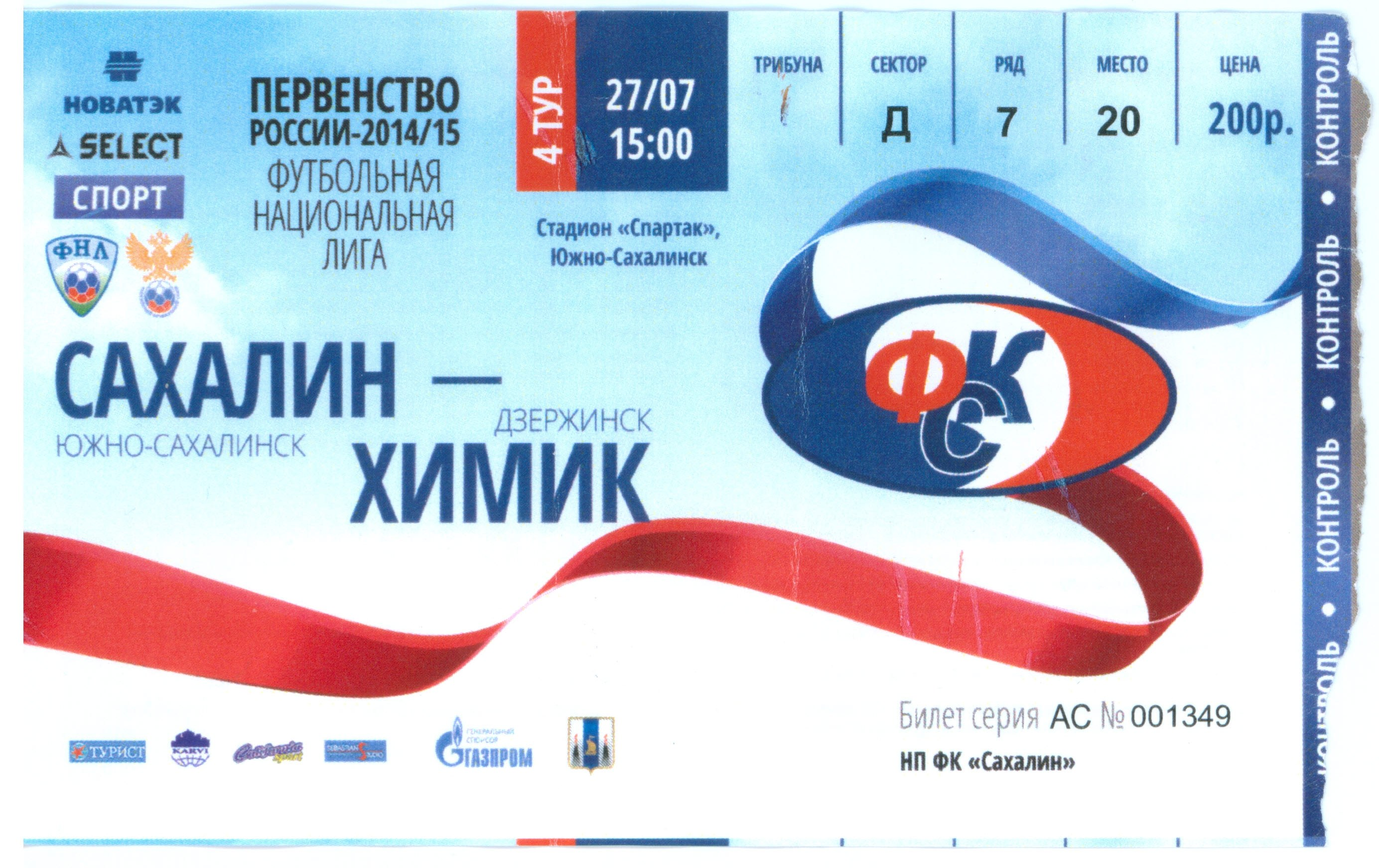 This is a scan copy of ticket